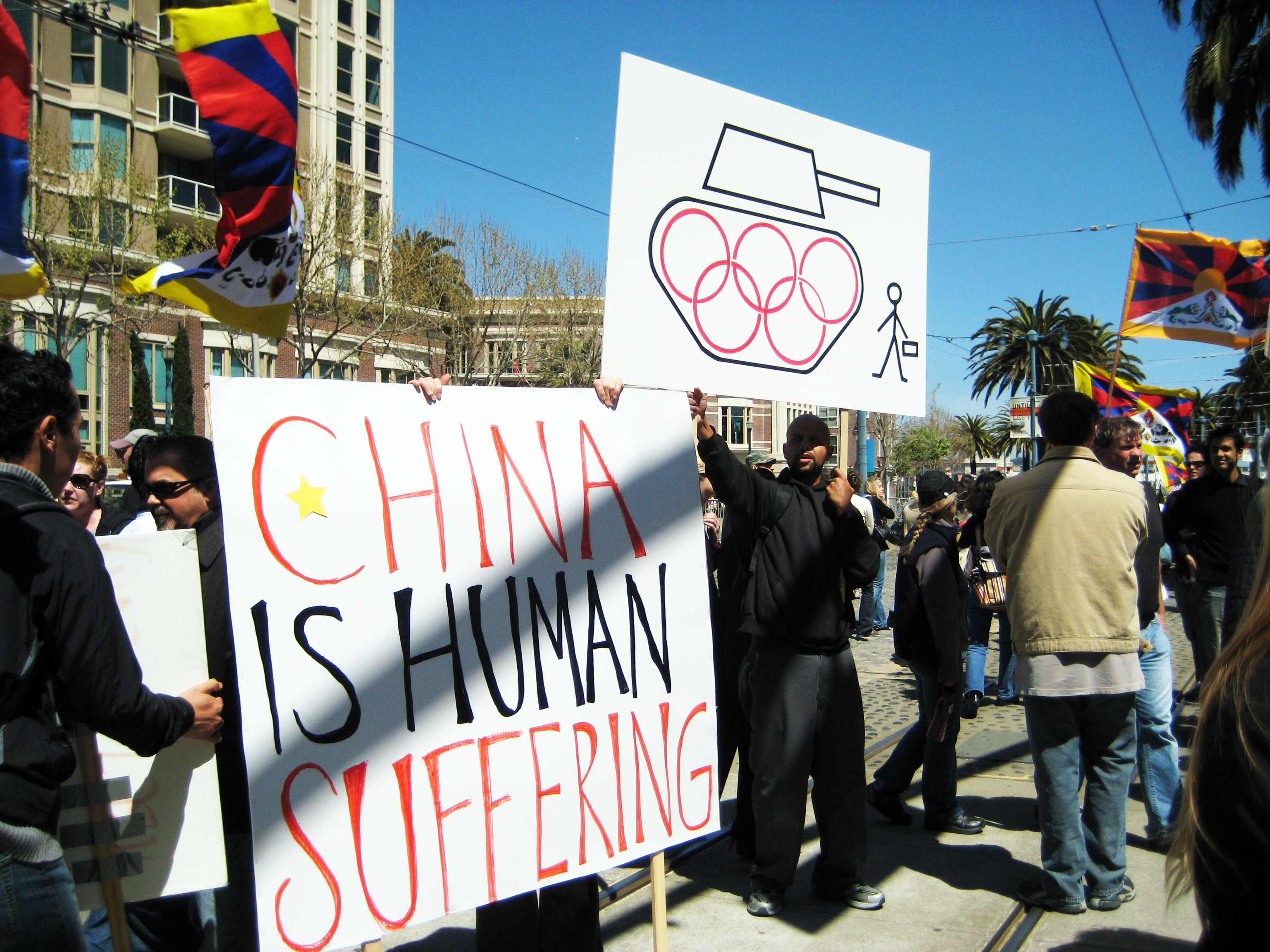 China is Human Suffering